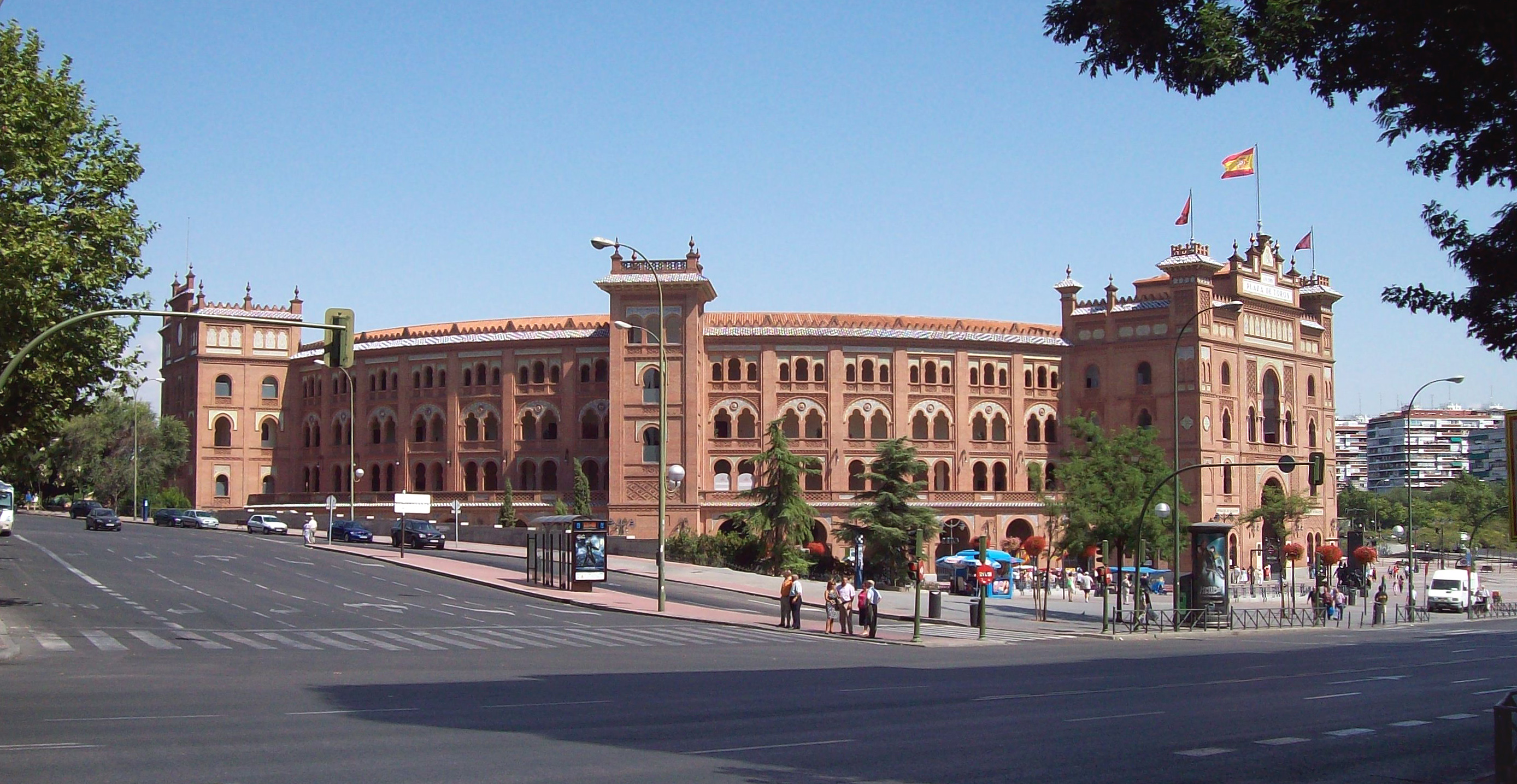 View of Las Ventas Bullring in Madrid (Spain) from the Calle de Alcalá (street).